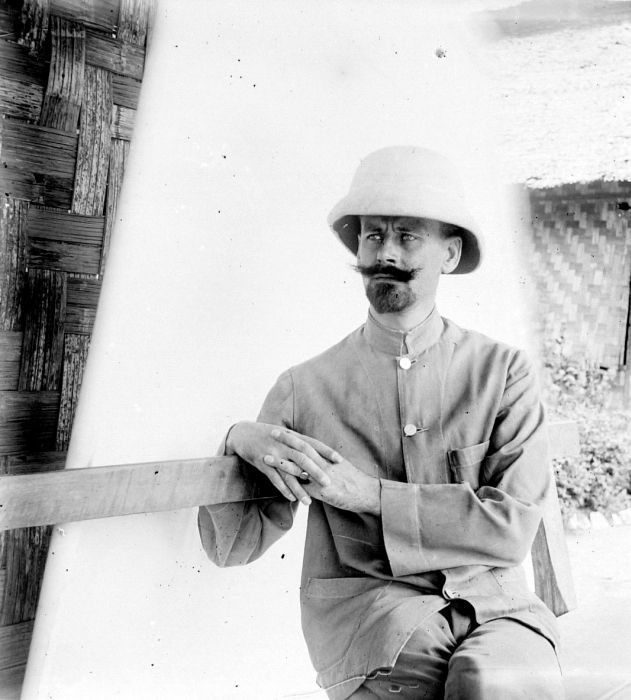 The anthropologist Dr. Kleiweg de Zwaan during his research in South-Nias